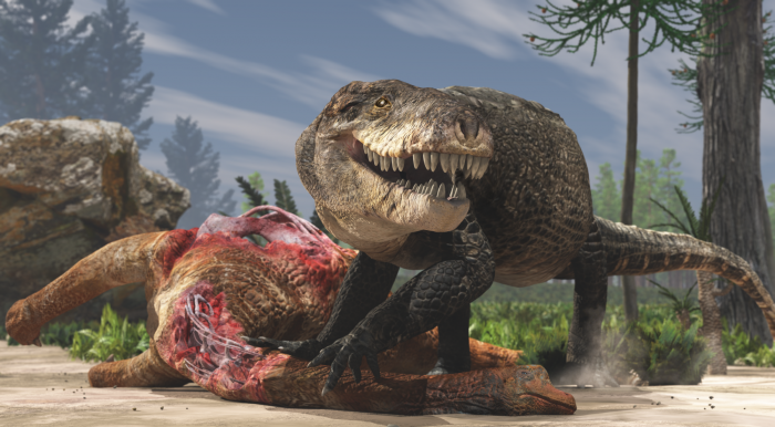 A reconstruction of the newly identified beast. (Credit: Fabio Manucci.) Thanks to a new fossil discovery, one of the major extinct groups of crocodile-ancestors received a small re-write of their evolutionary history. The geologically oldest discoveries of the now extinct Notosuchia help solve a long-standing riddle about their evolutionary origins.